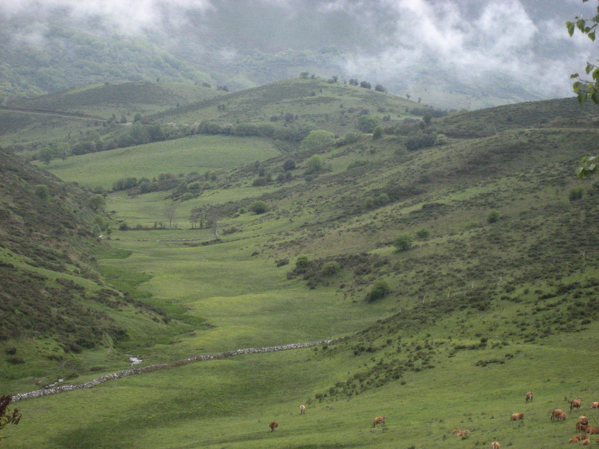 The pass is a flat and largely treeless valley, here seen from its northern end.